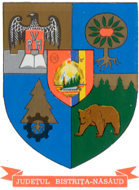 Communist coat of arms of Bistrița-Năsăud County, Socialist Republic of Romania.